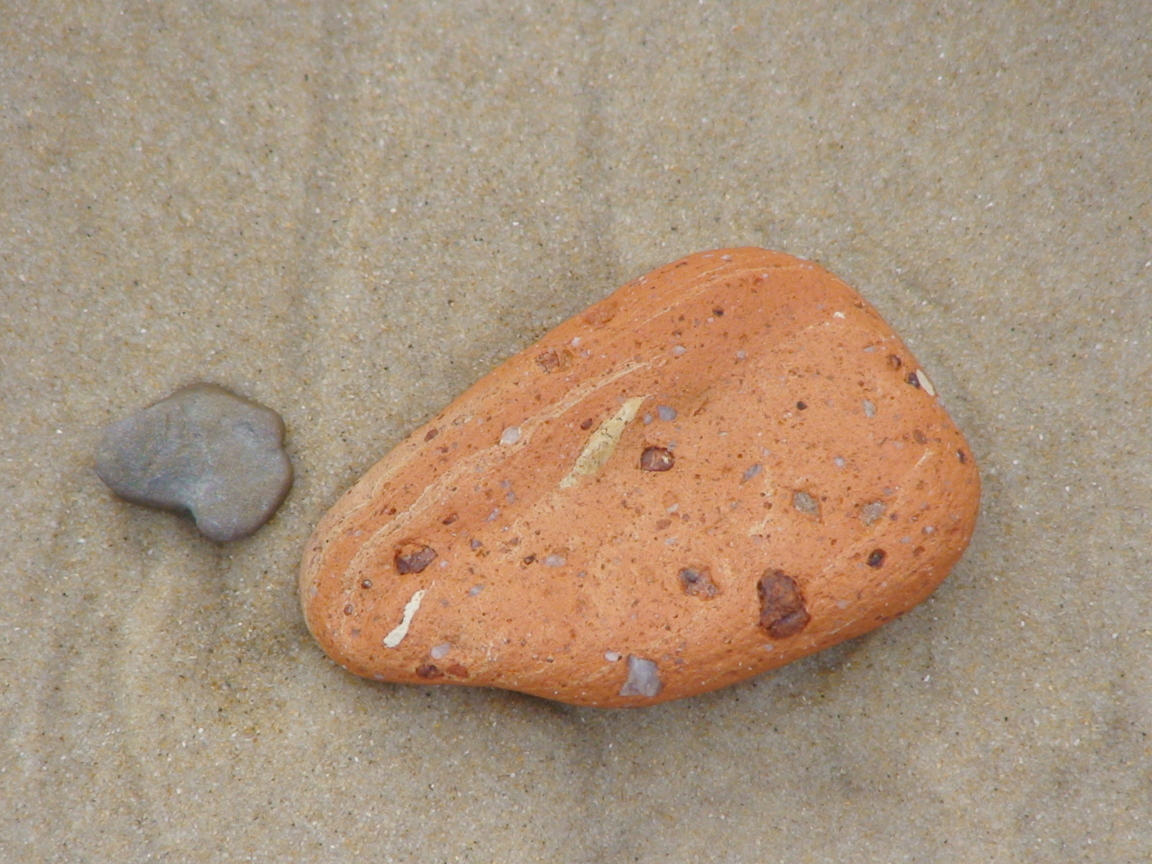 Piece of brick smoothed into a pebble by sea erosion. Baleal, Peniche, Portugal.